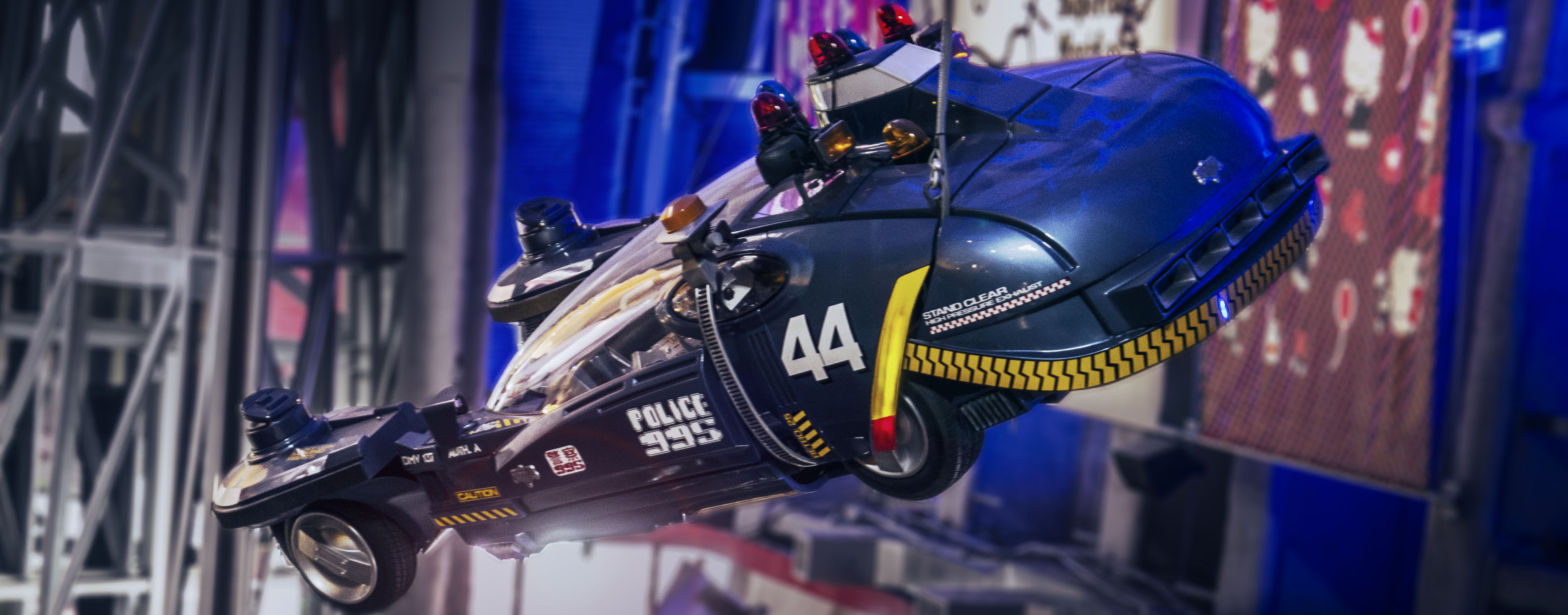 I caught this as I was walking out of the museum. Apparently it was used on screen, but has a history of falling out of trucks and being rebuilt. I was a bit skeptical at first after seeing the Captain America copy next to it. But, it lead me to find the sci-fi exhibit downstairs. One of the best parts of the museum in my opinion This is the most processed photo on here. Its something like 600mb at this point. bleh.